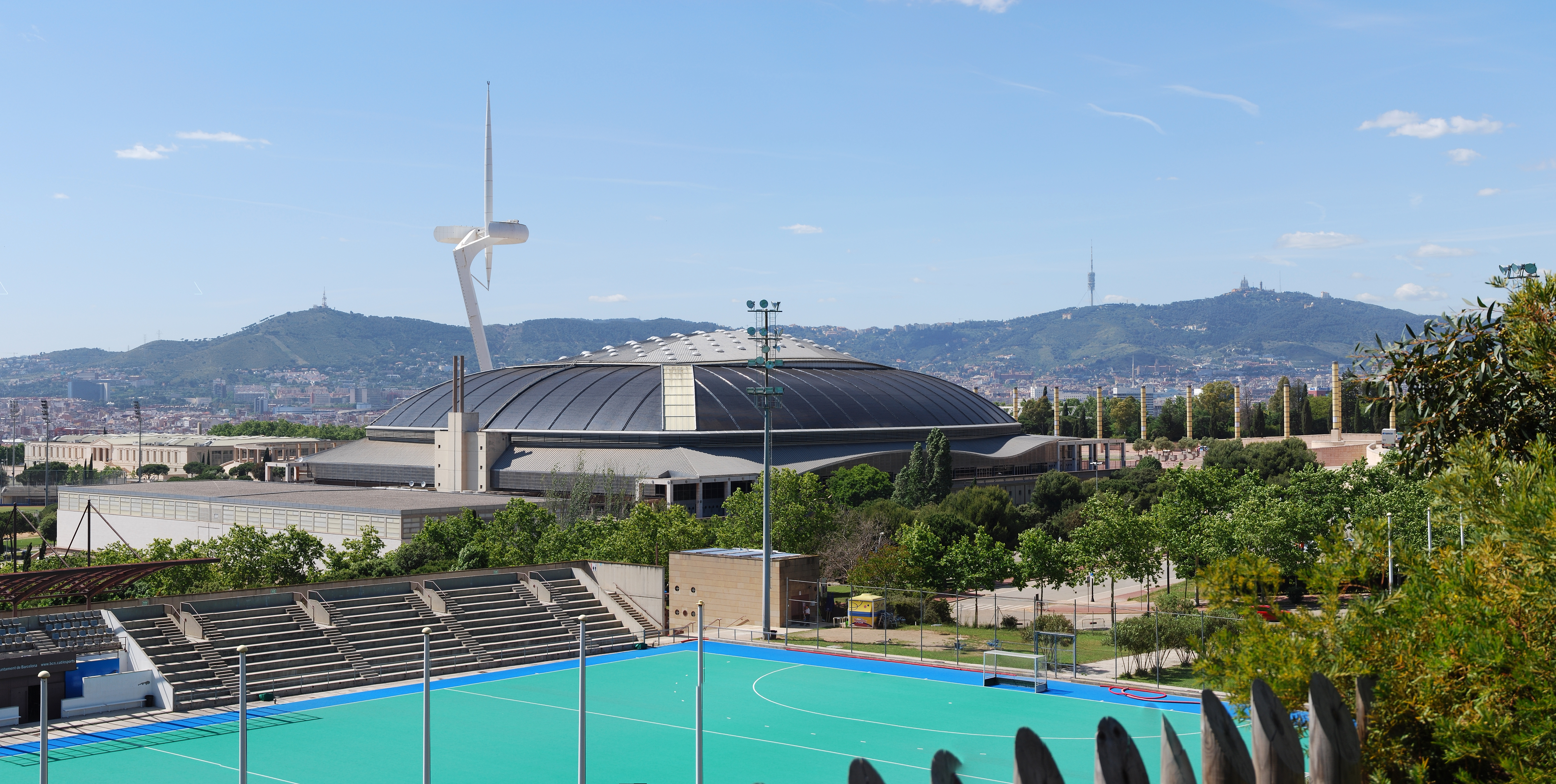 The Palau Sant Jordi, an indoor sporting arena and multi-purpose installation in Barcelona.